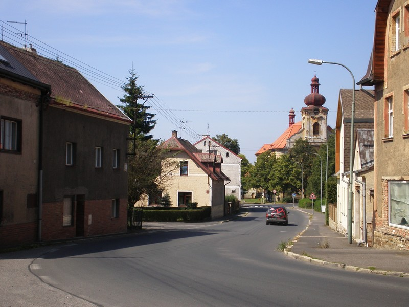 Sedlec (Karlovy Vary), Karlovy Vary District, Czech Republic